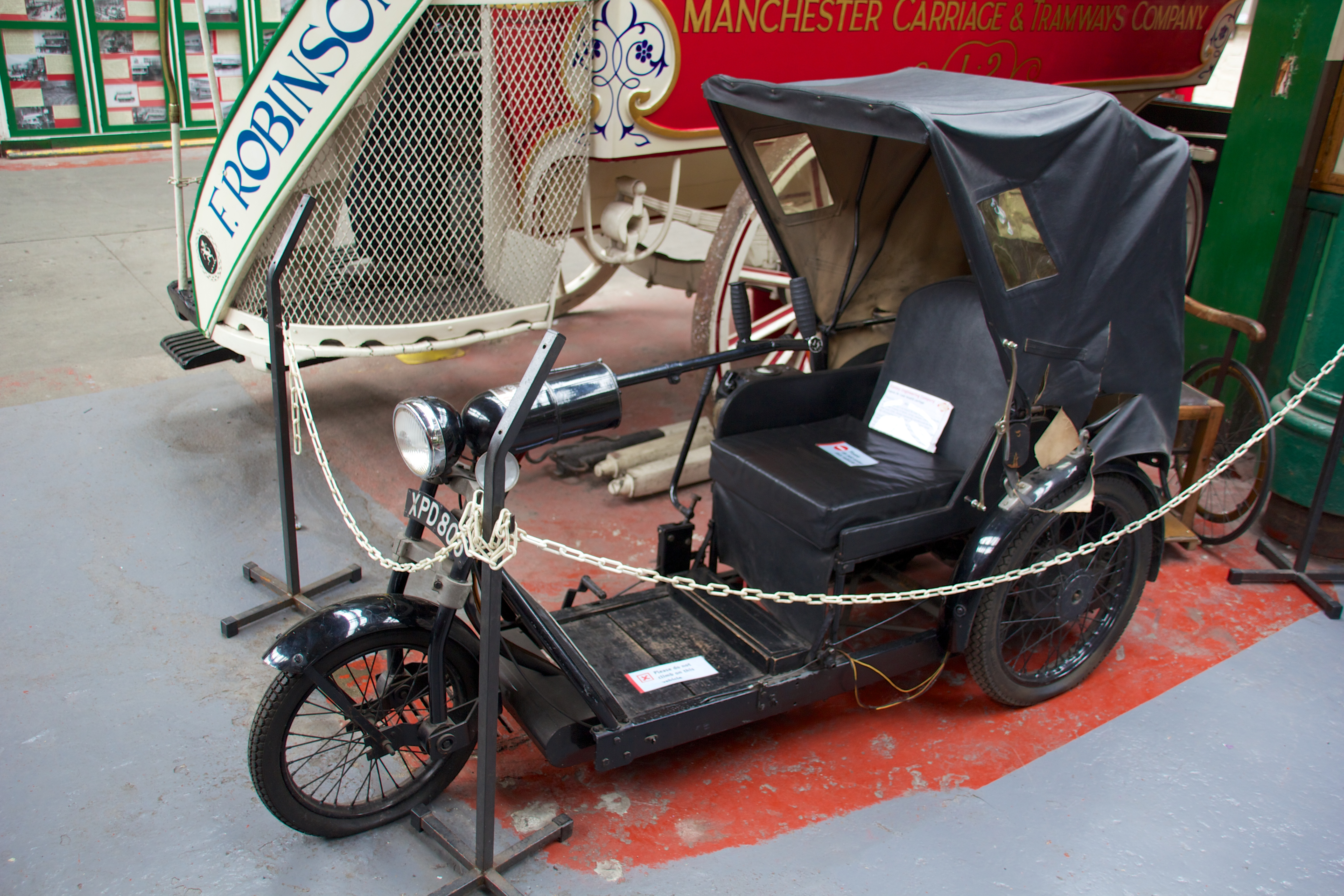 Stanley Engineering Company Argson De Luxe invalid carriage (produced between 1926 and 1954). XPD 805. At the Museum of Transport, Greater Manchester.